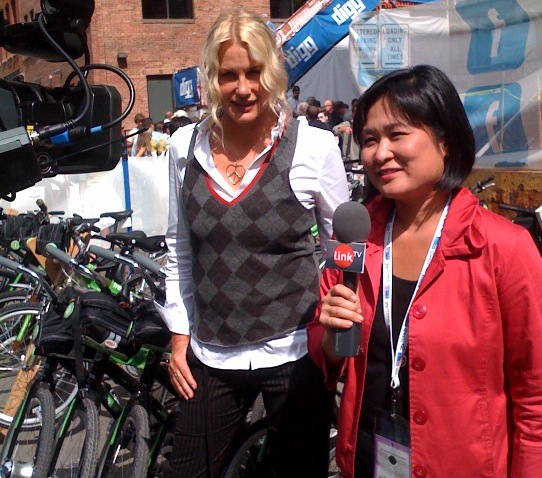 Join the fun at